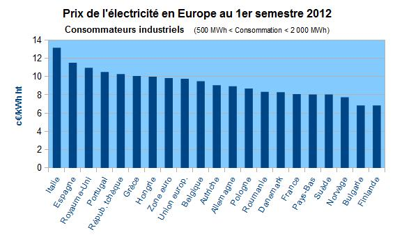 Electricity prices in Europe for industrial consumers, 1st semester 2012 data source : Eurostat